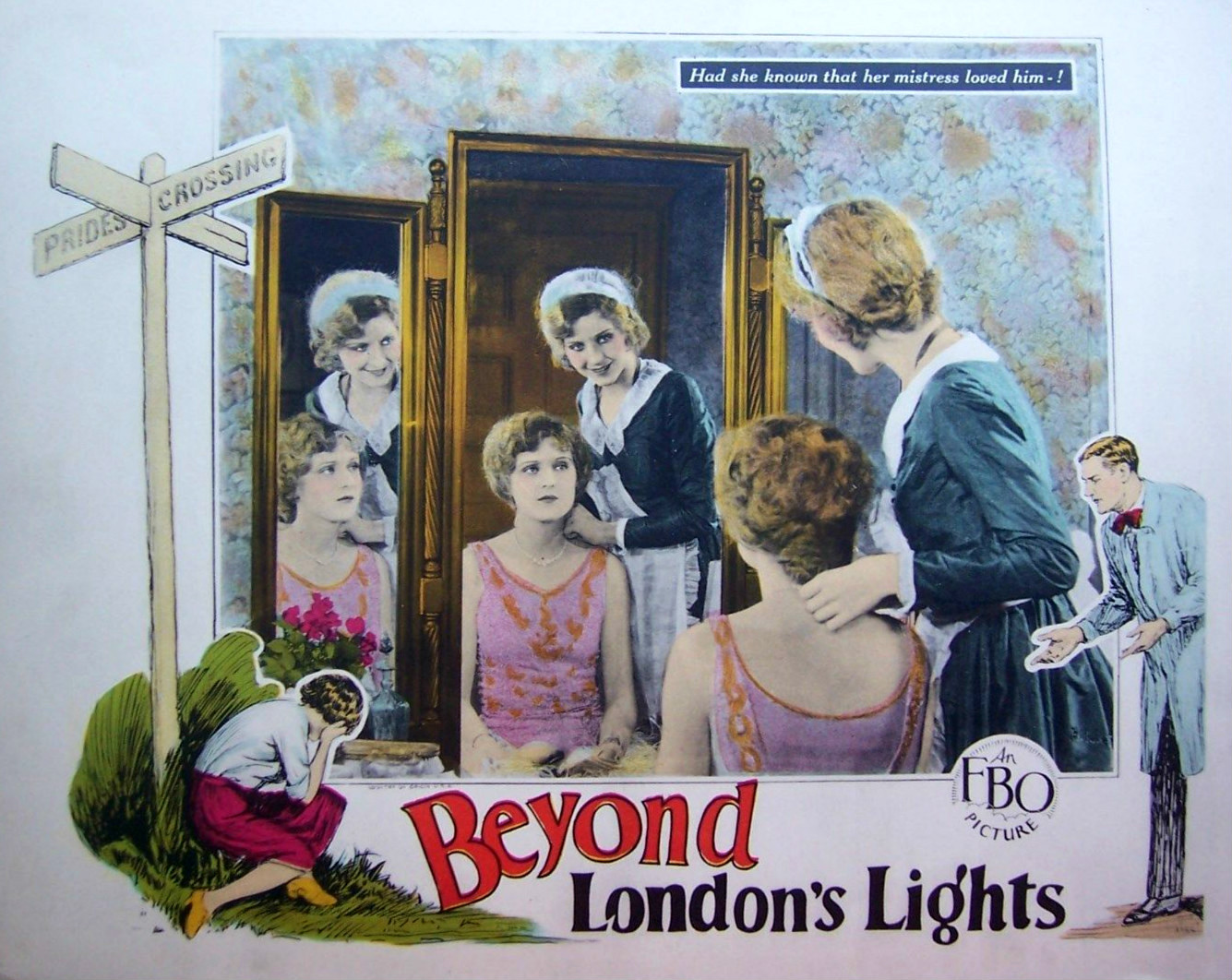 Lobby card for the American drama film Beyond London Lights (1928) with Jacqueline Gadsden and Adrienne Dore.